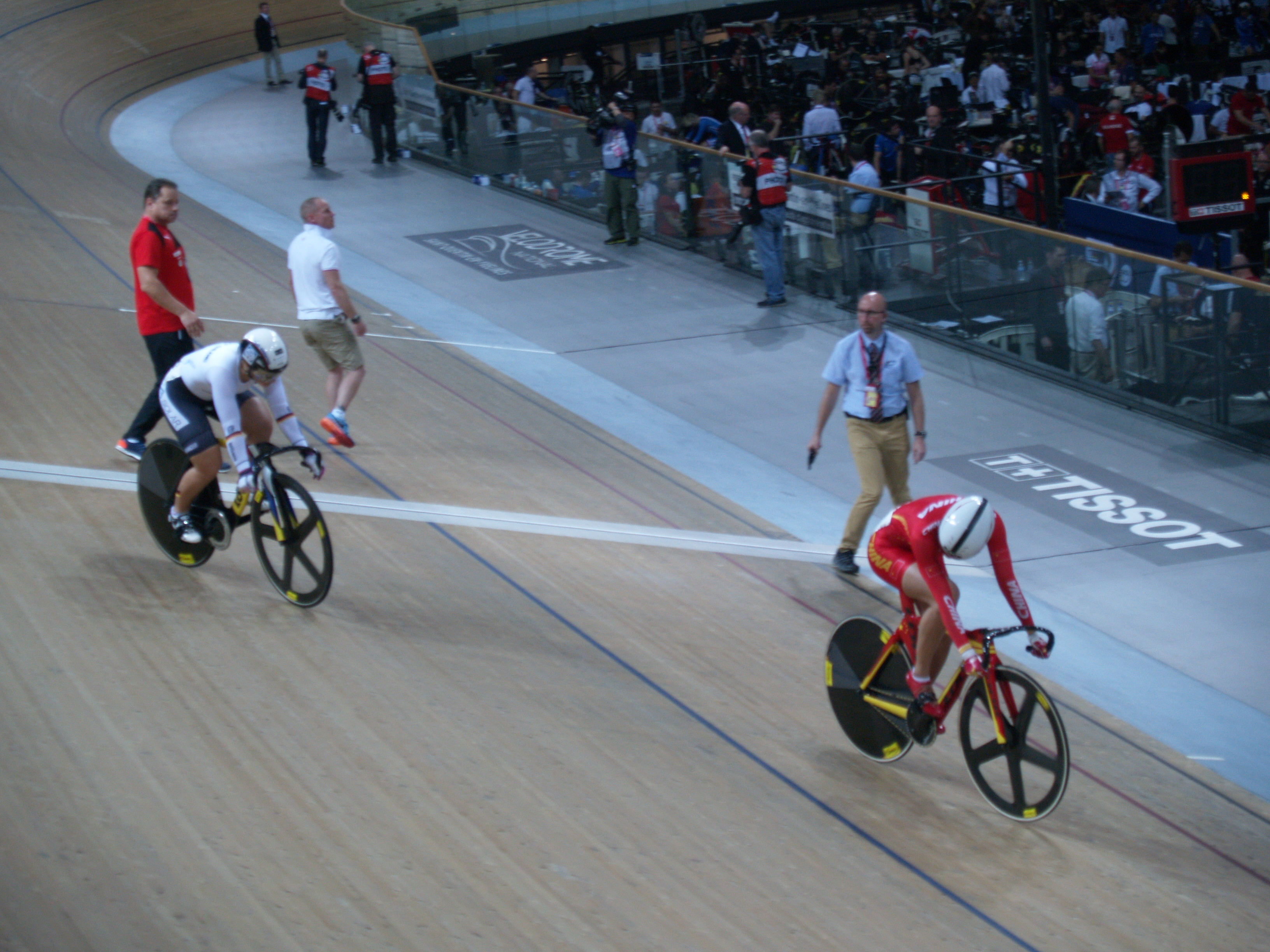 UCI Track World Championships - Kristina Vogel y Zhong Tianshi